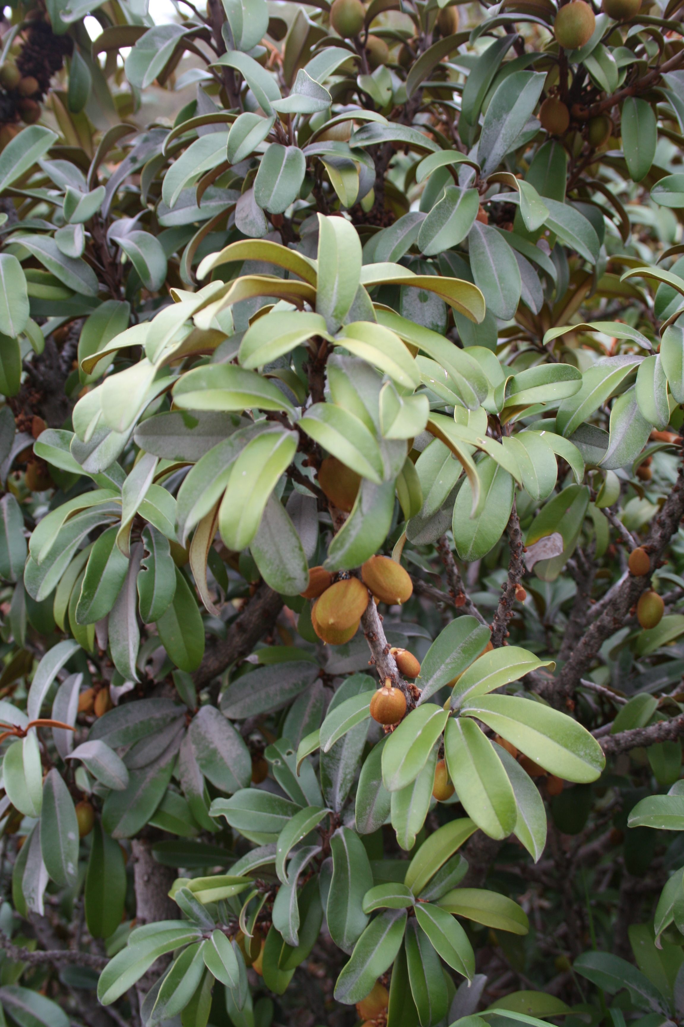 Transvaal milkplum at Mountain Sanctuary Park, Gauteng, South Africa